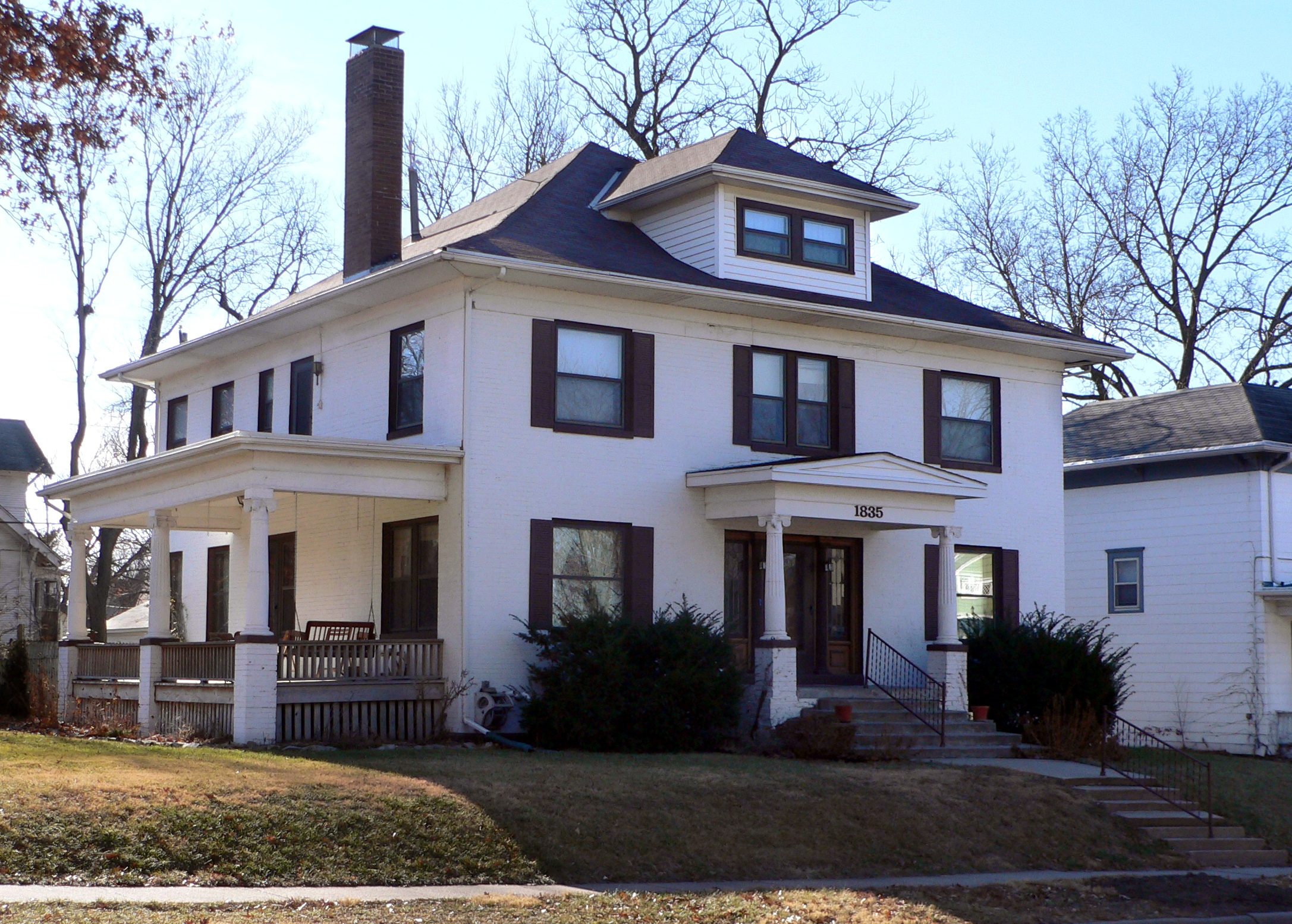 Ryons-Alexander house, located at 1835 Ryons Street in Lincoln, Nebraska; seen from the northeast.